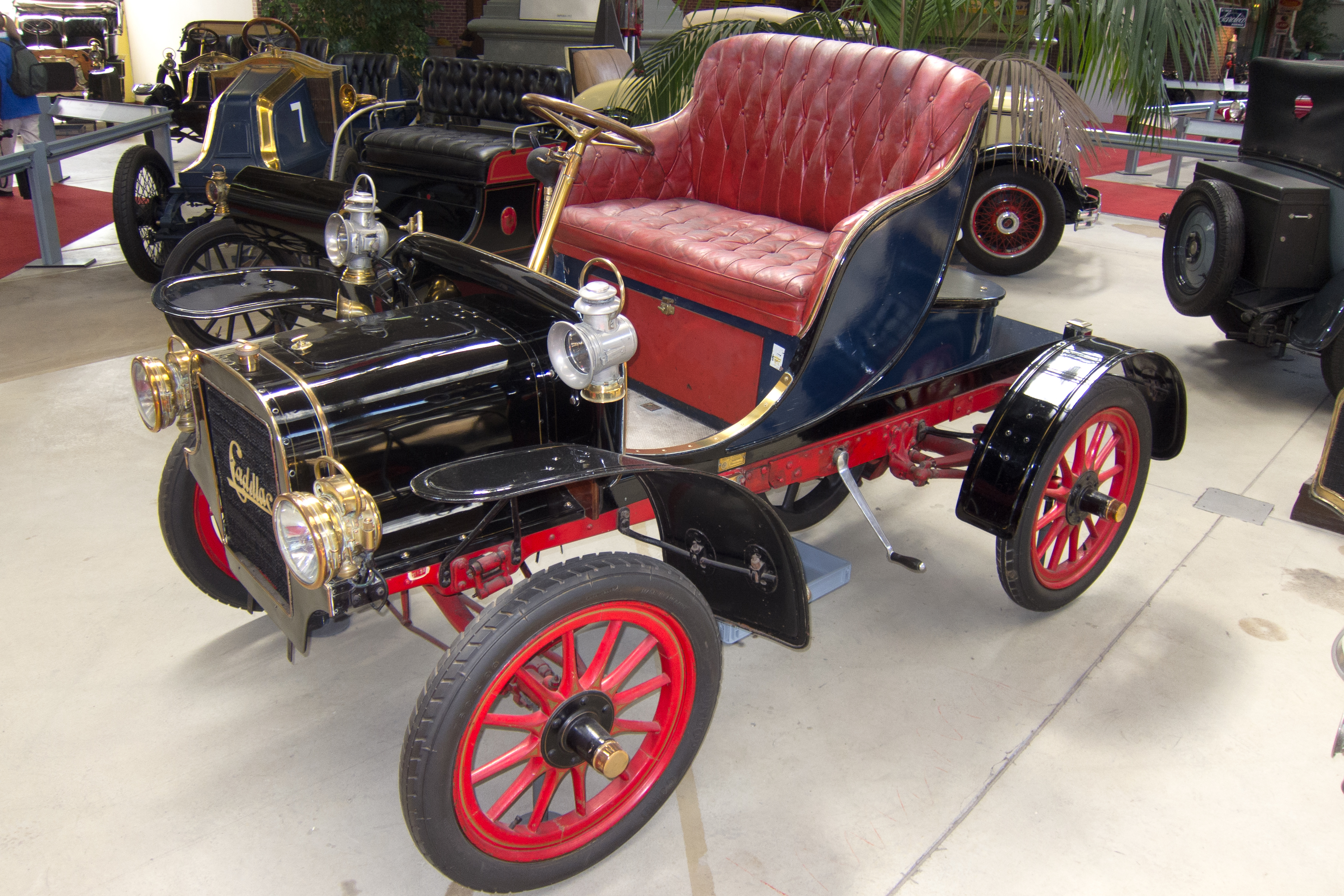 Cadillac K (1907) at Autoworld Brussels, Belgium, 2011